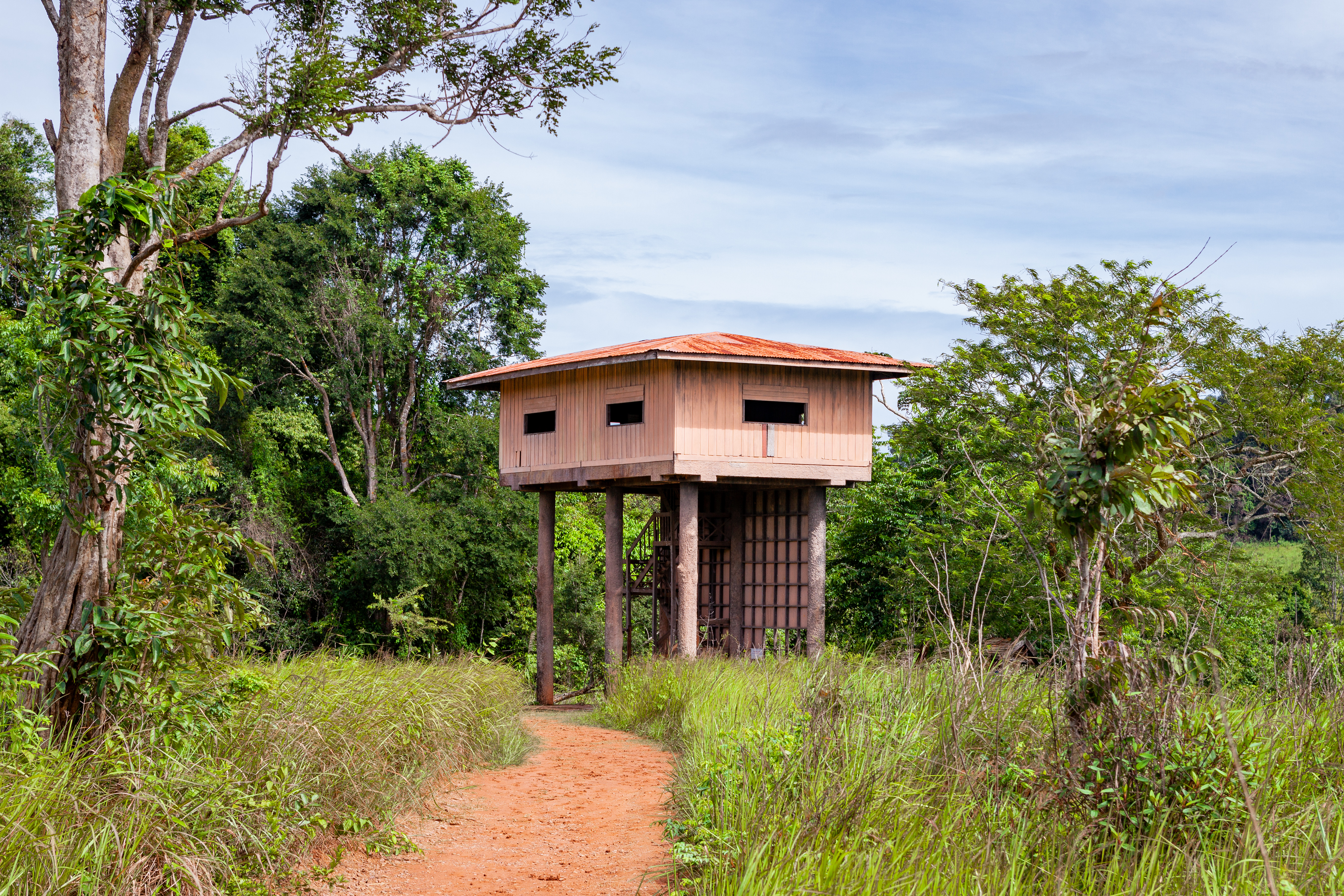 Nong Phak Chi's Observation tower in Khao Yai National Park, Nakhon Ratchasima Province, Thailand.